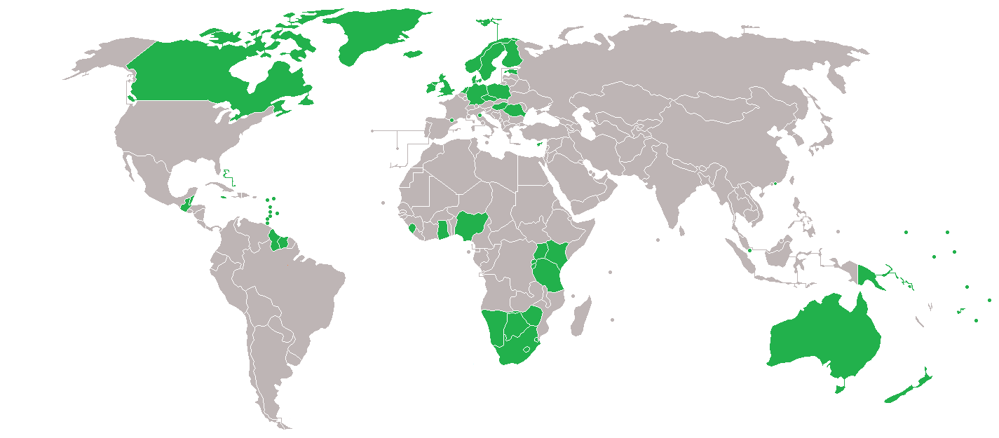 Countries which have Boxing Day as an official holiday